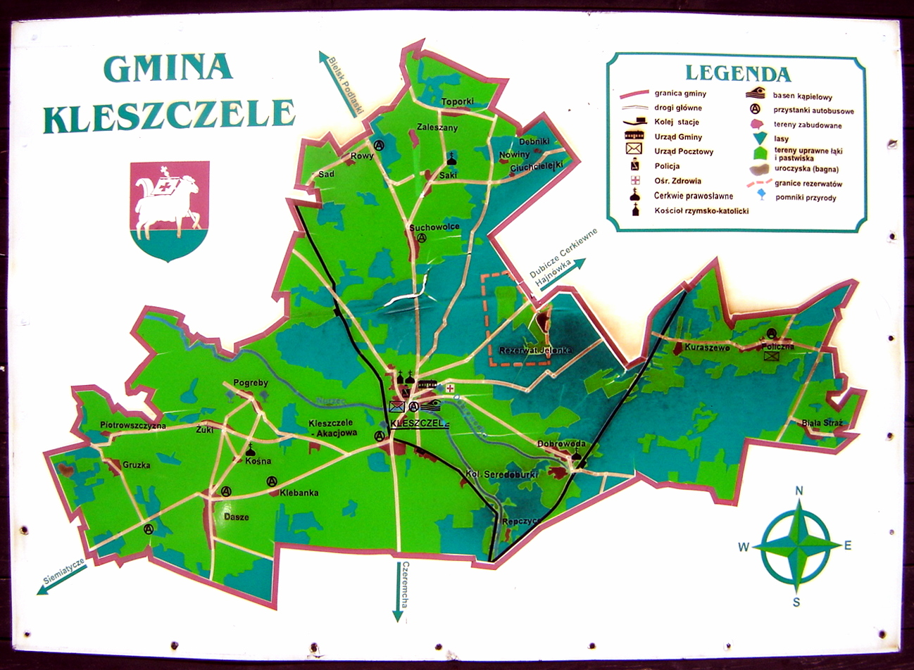 A map of Kleszczele in Hajnówka County, Podlaskie Voivodeship, Poland, on a signboard in the city park.